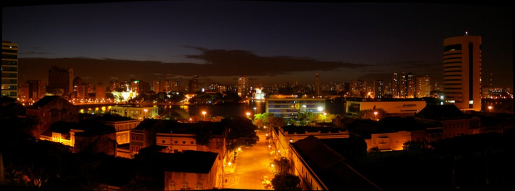 Panoramica de Recife ao anoitecer do alto da Torre Malakoff. Recife by Night from the top of Malakoff Tower. note: done with Autostitch